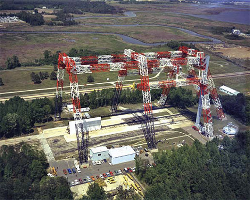 Gantry at the NASA Langley Research Center in Hampton, VA